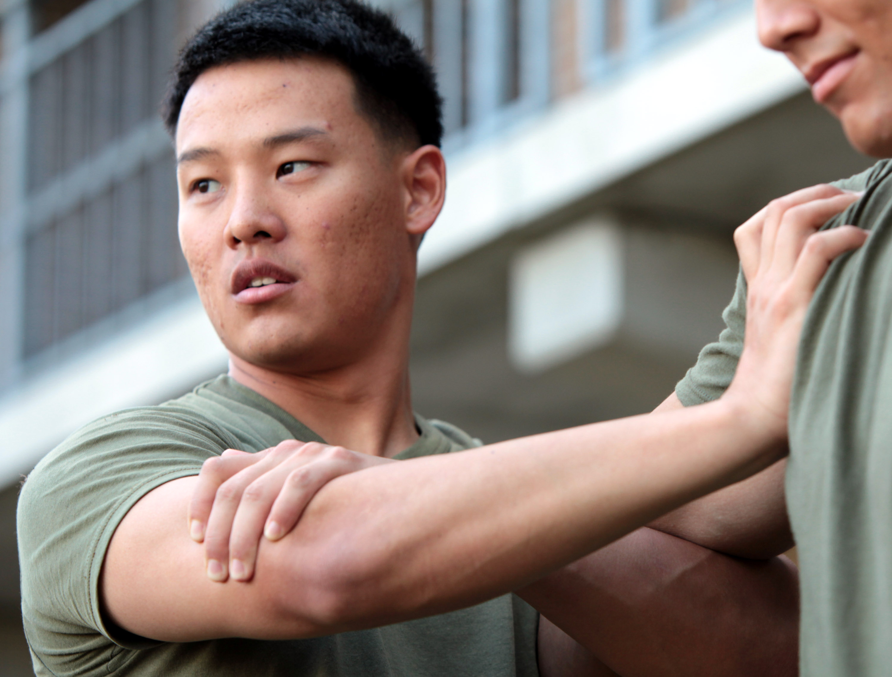 Sgt. Jason Yoon, 4th platoon guide, Company F, Anti-Terrorism Battalion attached to 2nd Marine Division, prepares to perform a take down while conducting Marine Corps Martial Arts Program training aboard Marine Corps Base Camp Lejeune, N.C., Sept. 22. “I’m still not certain if we’re going to deploy or not,” said Yoon “But either way I’m walking away with my degree in hand and will do whatever it takes to reach my goal and receive a commission as an officer in the Navy.”